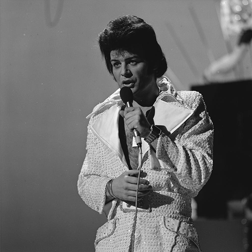 Gary Glitter getting ready to fiddle with the kids